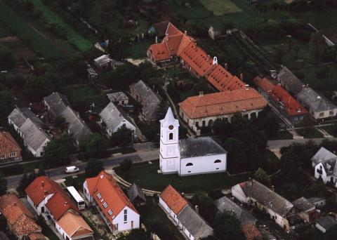 Tótvázsony, Hungary, aerialphotgraphy